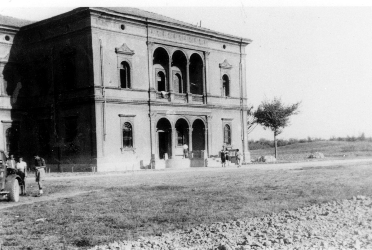 Villa Emma, Nonantola Italy 1945.